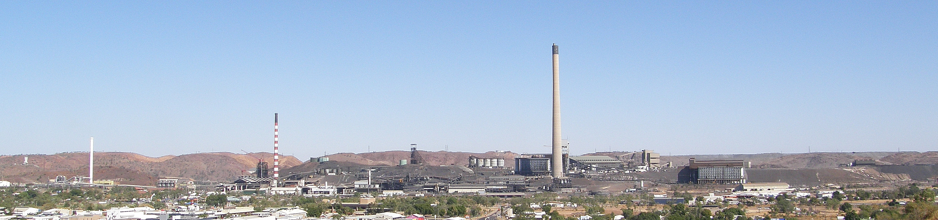 Mt. Isa Mines, Mt. Isa, Queensland: The high chimney in the right is for the lead smelter, the red-white chminey left marks the copper smelter. The Black Star Pb-Zn open pit mine is right of the lead smelter behind the ridge, just the dumps are visible. The shafts of the underground copper mine are behind the lead smelter chminey. The old prominent headframe in the central part of the image is not used anymore.